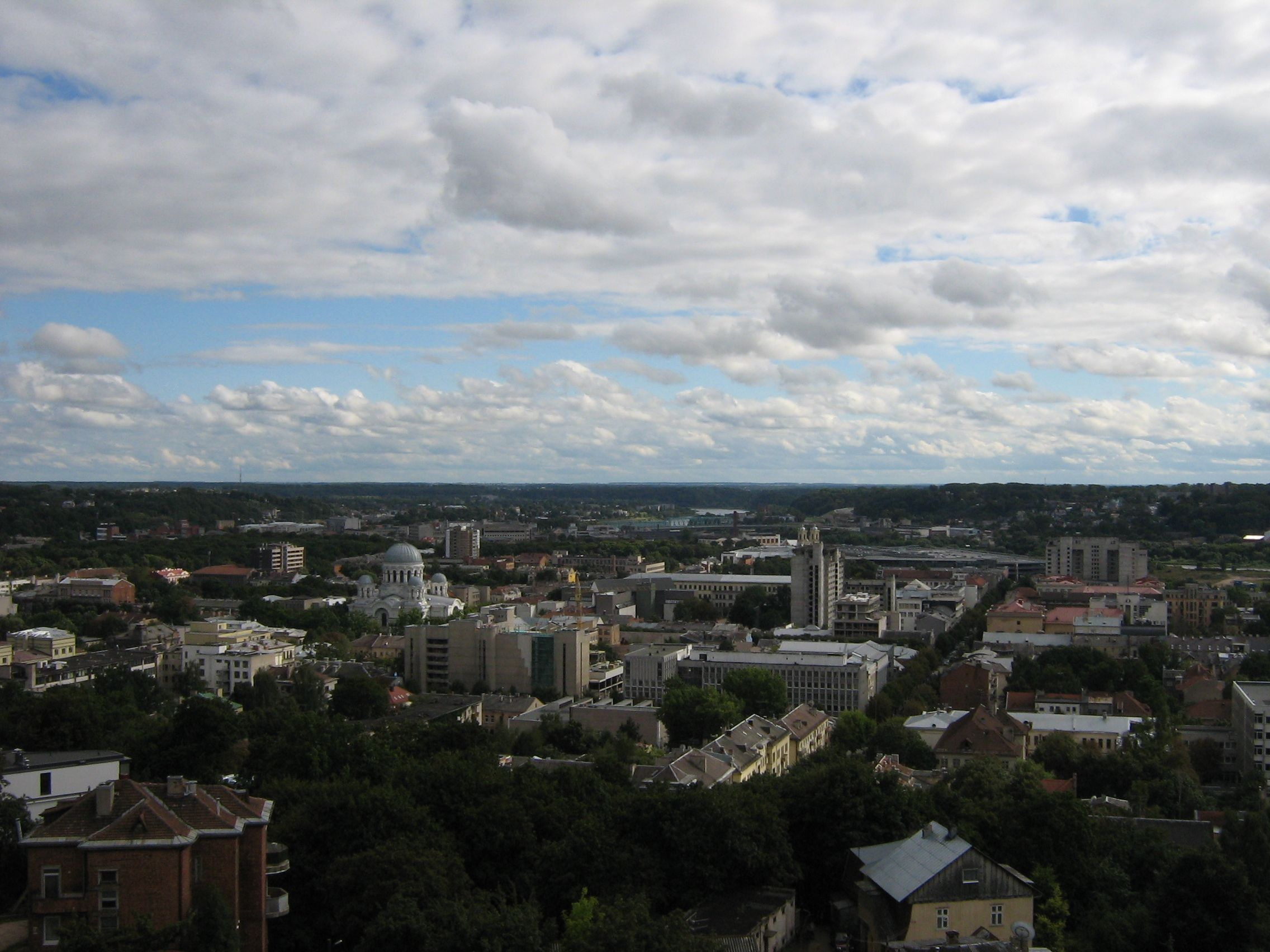 Kaunas centre Eastern part view from Christ's Resurrection Church top.